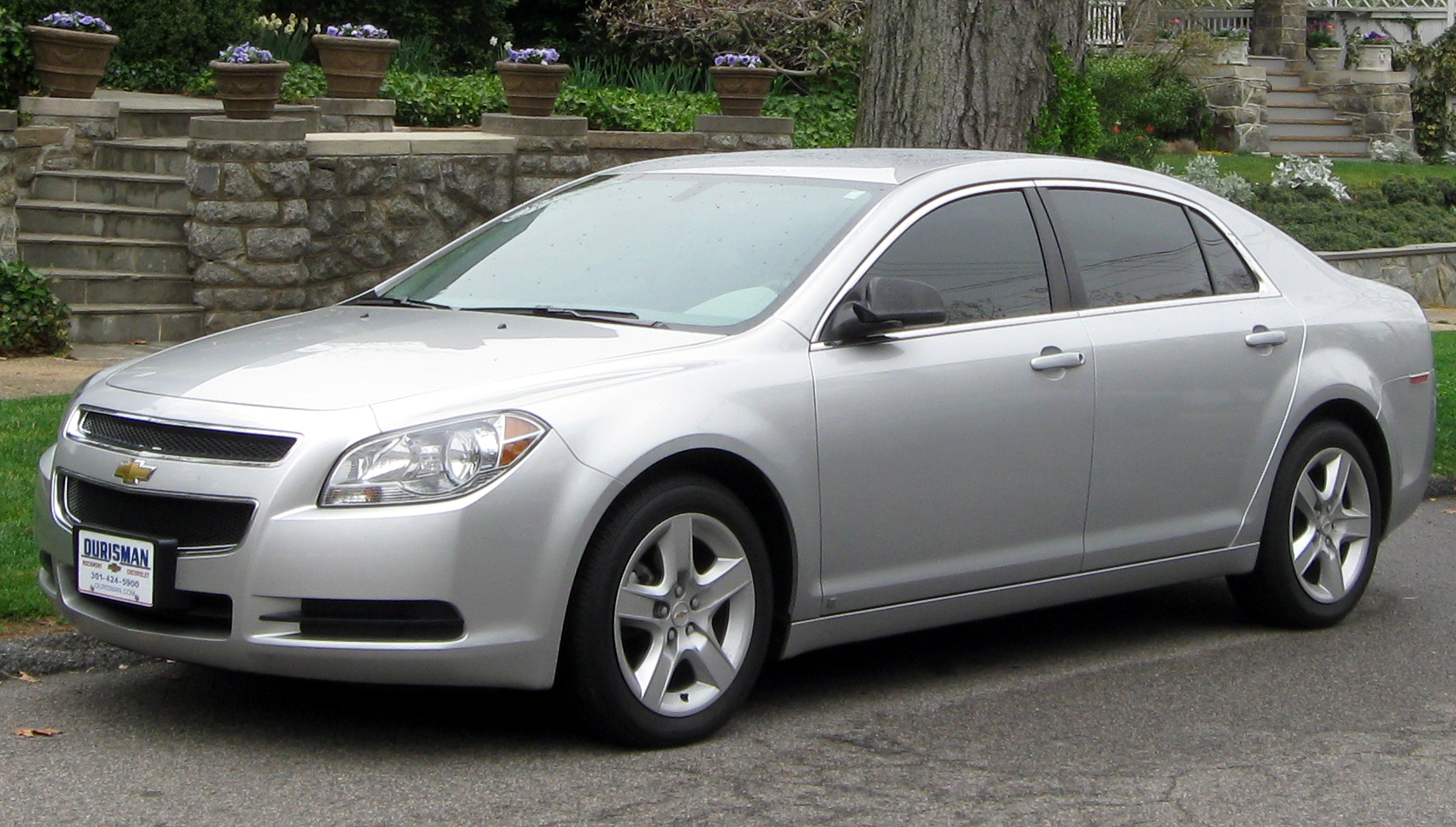 2008-2010 Chevrolet Malibu photographed in Washington, D.C., USA.